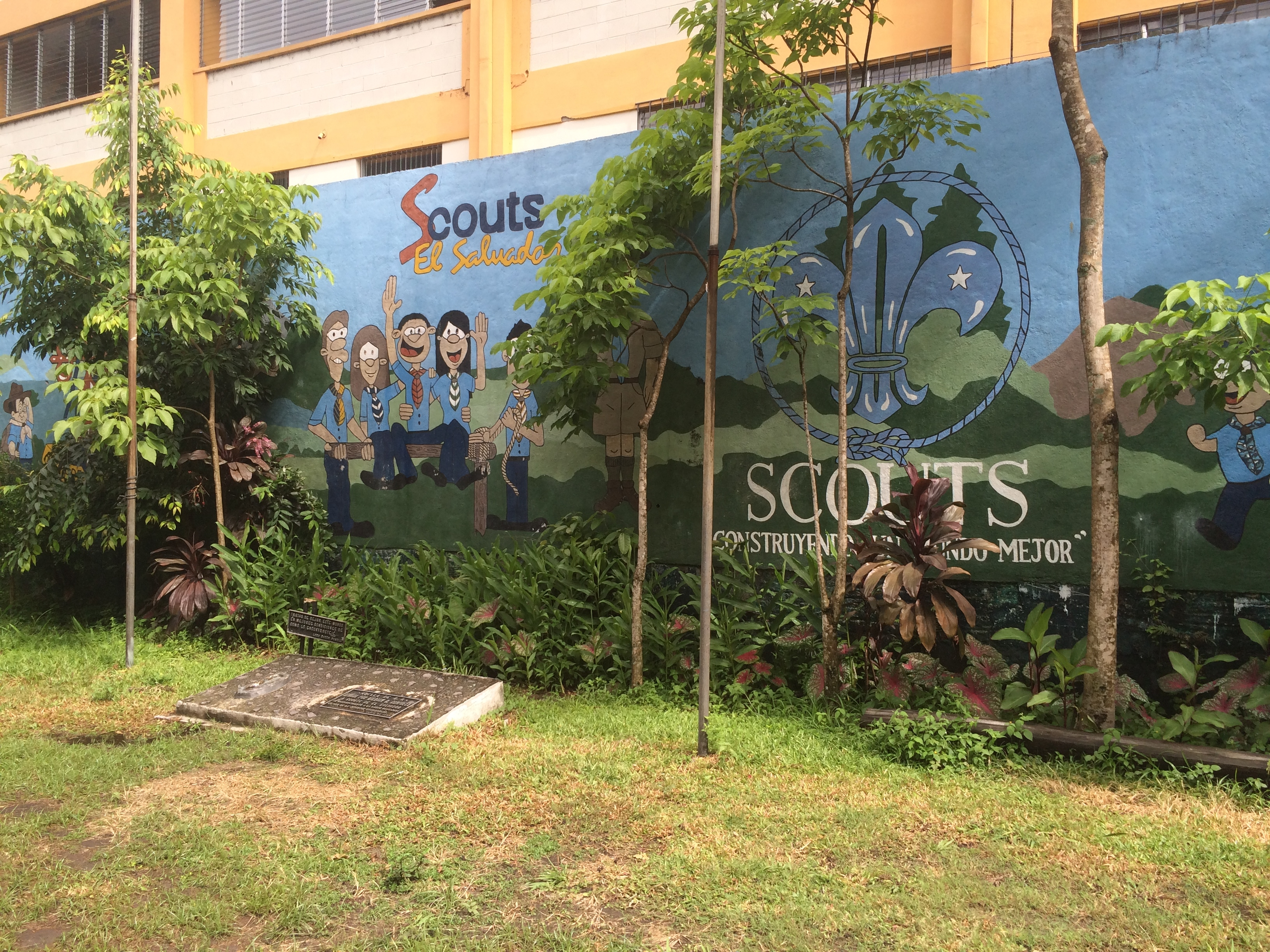 Footprint of Baden Powell Marker - San Salvador, El SalvadorThe small additional marker reads